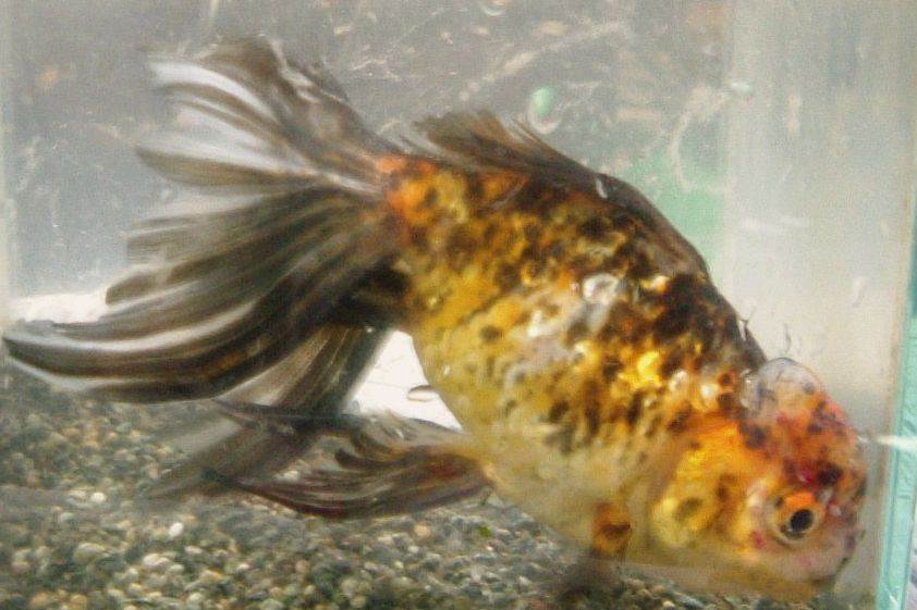 Azumanishiki